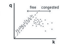 The fundamental diagram: free flow and congested traffic. As seen, under free flow conditions, the relationship between flow and density is much stronger than in congested conditions. Please not that the data points are fictitious in this case.